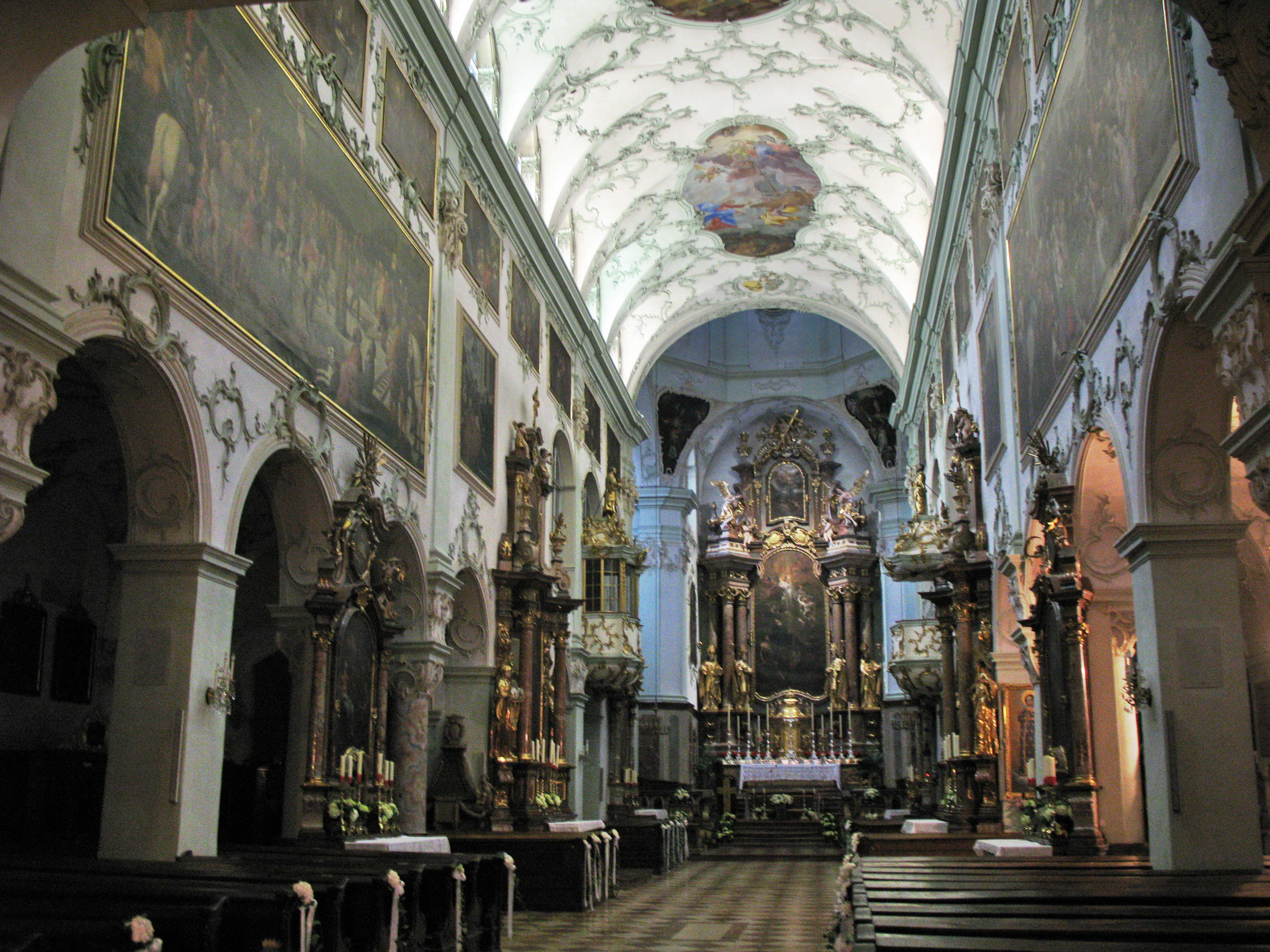 Ore Abbey of St. Peter, Salzburg, Austria